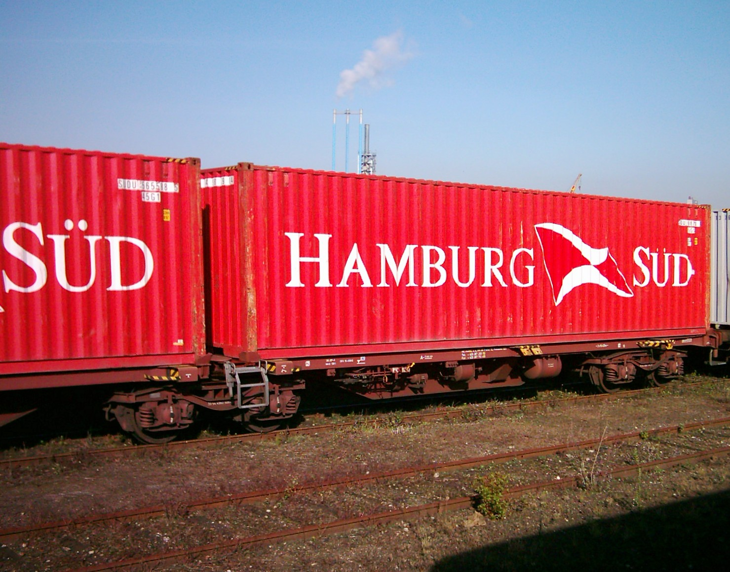 HAMBURG SÜD container, Hamburg, Germany.